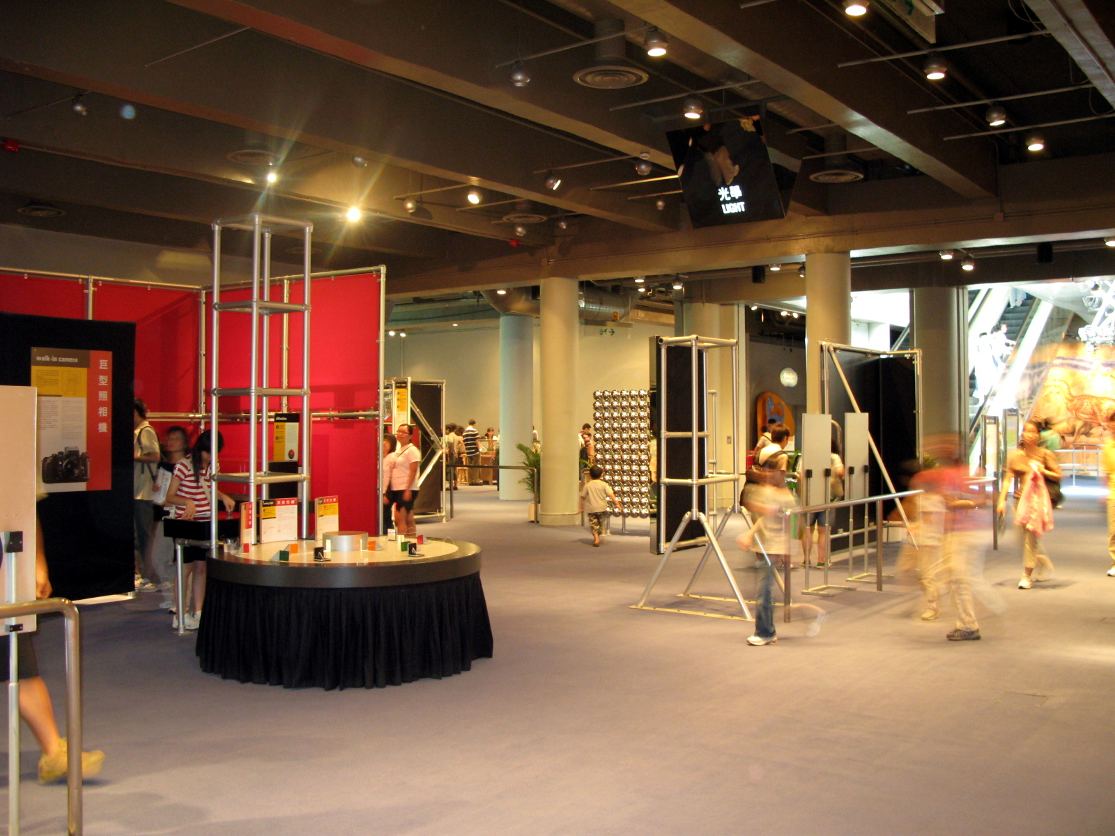 Hong Kong Science Museum Light Zone